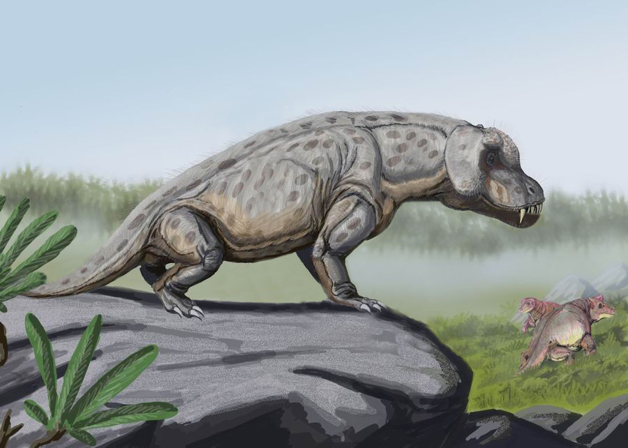 Anteosaurus in landscape - reconstruction autor - Bogdanov